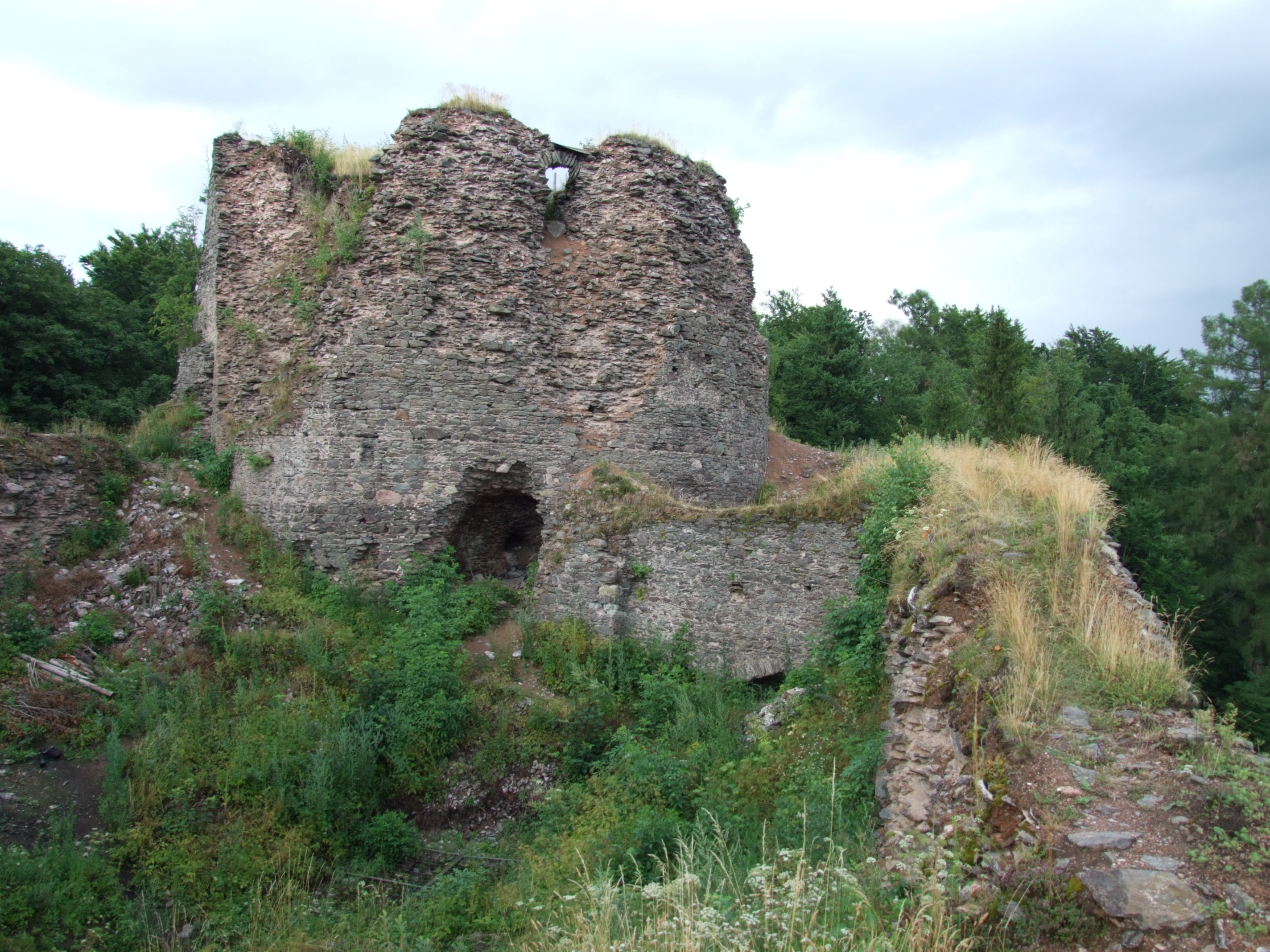 Frymburk castle, Hradec Králové region, Czech Republic